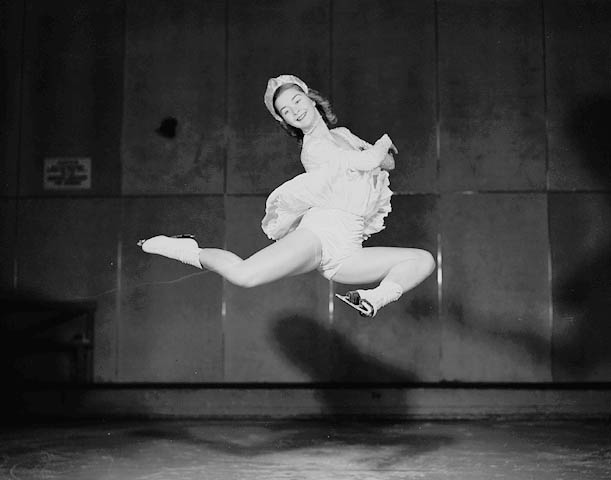 Title / Titre : Barbara Ann Scott performing a stag jump at the Minto Skating Club / Barbara Ann Scott exécutant un « saut de biche », club de patinage Minto Title / Titre : Barbara Ann Scott performing a stag jump at the Minto Skating Club / Barbara Ann Scott exécutant un « saut de biche », club de patinage Minto Creator(s) / Créateur(s) : Frank Royal Date(s) : December 1947 / décembre 1947 Reference No. / Numéro de référence : AMICUS n/a, MIKAN 3192046, 3623471 Location / Lieu : Ottawa, Ontario, Canada Credit / Mention de source : Frank Royal. Canada. National Film Board of Canada. Photothèque. Library and Archives Canada, PA-112691 / Frank Royal. Canada. Office national du film du Canada. Photothèque. Bibliothèque et Archives Canada, PA-112691 Credit: National Film Board of Canada. Photothèque / Library and Archives Canada Copyright: Creative Commons Attribution